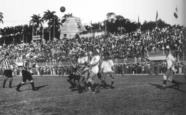 The Brazil v. Chile national teams match, during the 1919 Copa América held in Brazil.